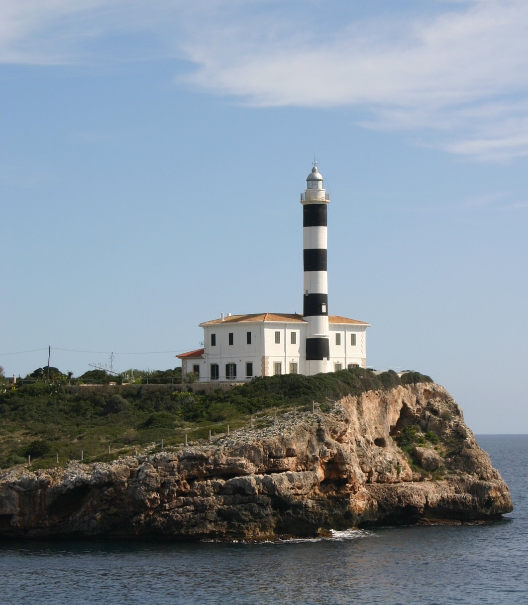 Lighthouse at Punta de ses Crestes, Portocolom, Mallorca, Baleares